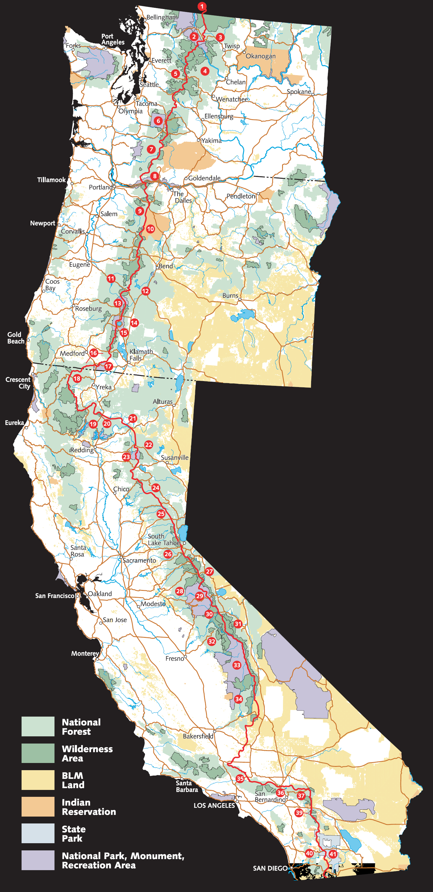 Schematic overview of the Pacific Crest Trail route, adjacent federal lands, and landscape. (BLM stands for Bureau of Land Management.)